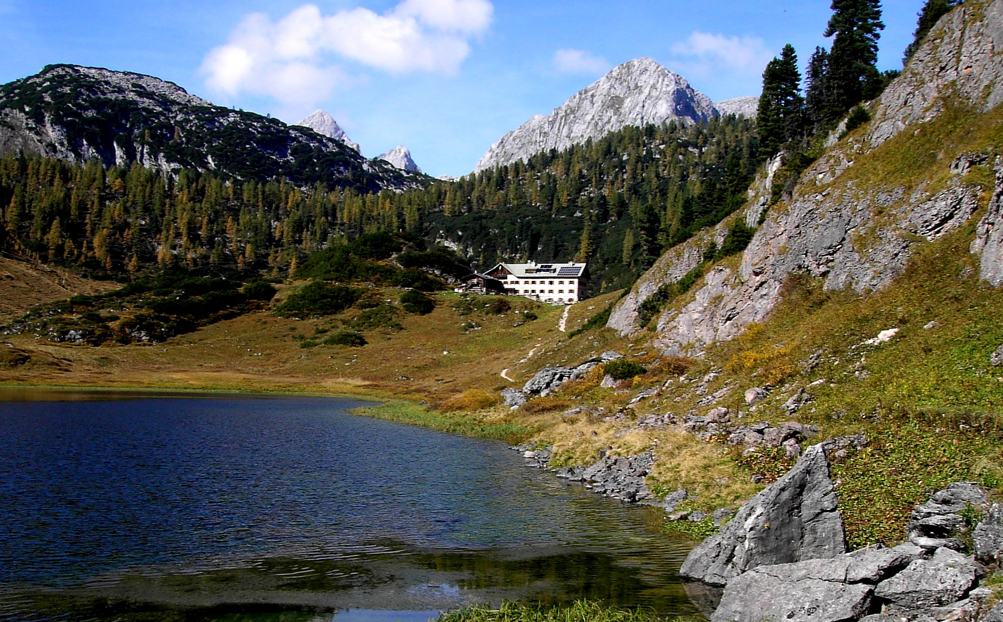 Kärlingerhaus Alpine hut, at lake Funtensee, in the Berchtesgaden Alps, Germany. The photo shows an Alpine hut owned by the German Mountaineering Club, Chapter Berchtesgaden, in the Steinernes Meer area in Berchtesgaden Nationalpark. By Tobi Kellner taken October 2005